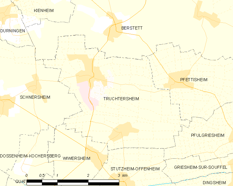 Map of French municipality